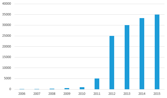 Number of articles in the Bashkir Wikipedia.Башҡортса: Башҡорт Википедияһында мәҡәләләр һаны.